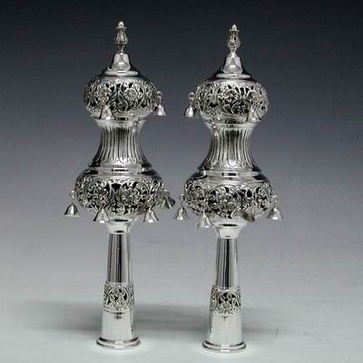 A Pair Silver Torah crowns used to decorate a Torah Scroll. These Torah crowns were made by Hadad Silver in Israel.